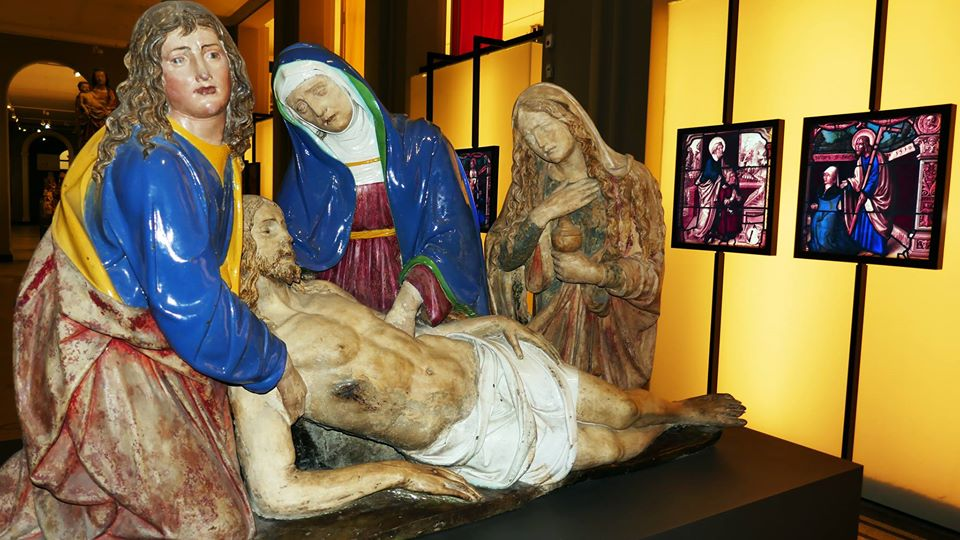 The dead Christ with the Virgin, St. John and St. Mary Magdalene, painted terracotta sculpted by Andrea della Robbia or workshop in 1515.